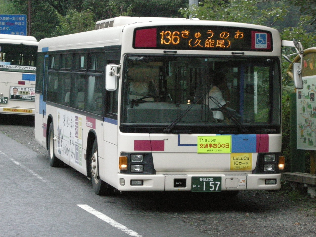 Sizutetsu-Justline bus,Warashina line, bound for"Kyuunoo"